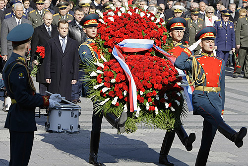 ALEXANDROVSKY GARDEN, MOSCOW. Laying a wreath at the Tomb of the Unknown Soldier.